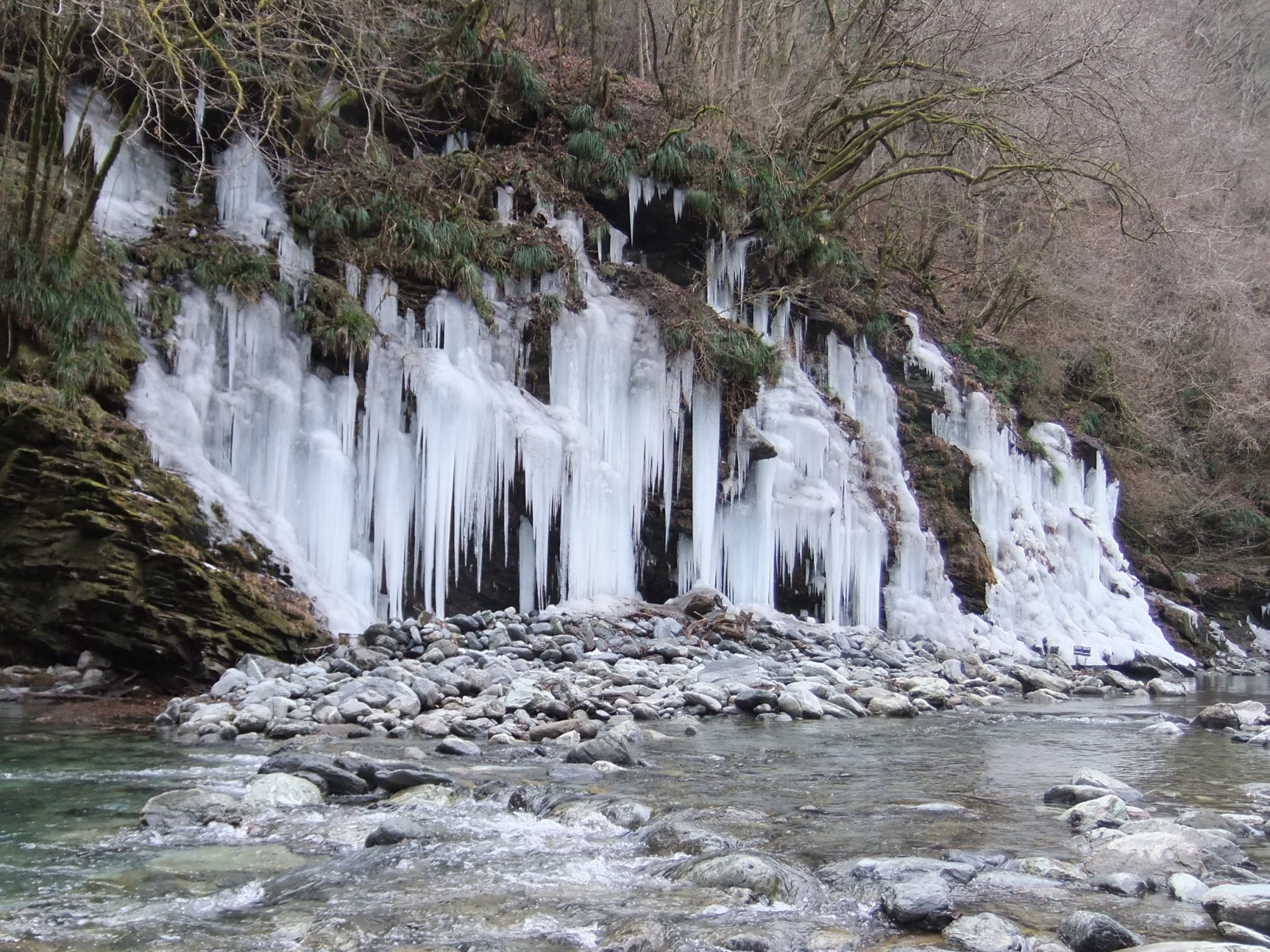 "Misotsuchi no Tsurara" (Icicles of the Misotsuchi) in Chichibu, Saitama